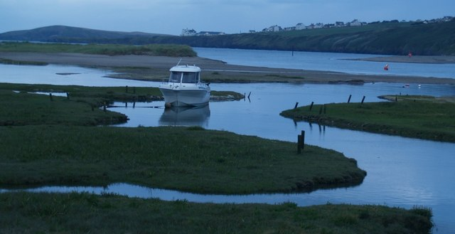 Aber Teifi, gyda Gwbert yn y cefndir / Teifi estuary with Gwbert in the background